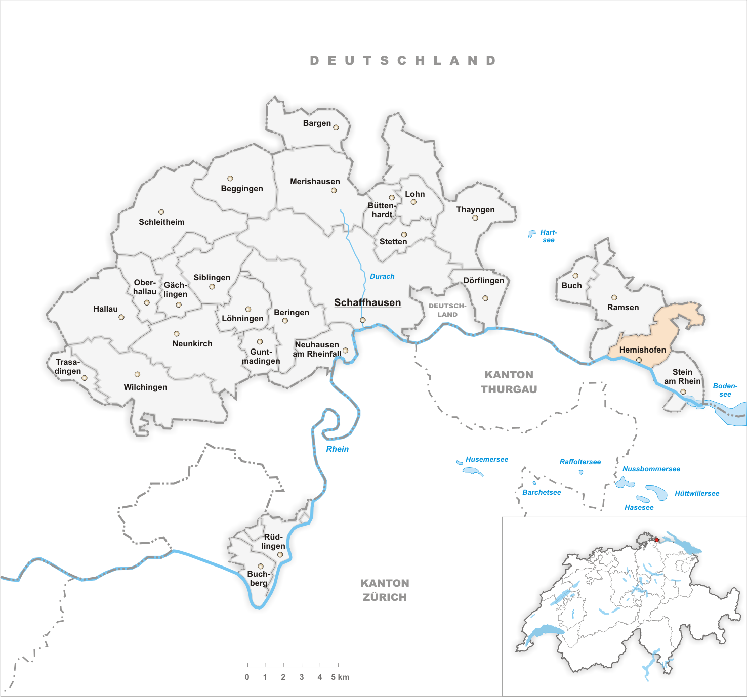 Municipality Hemishofen